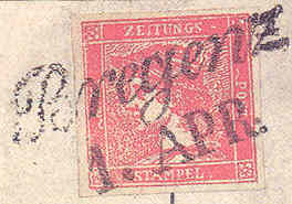 Faked Red Mercury